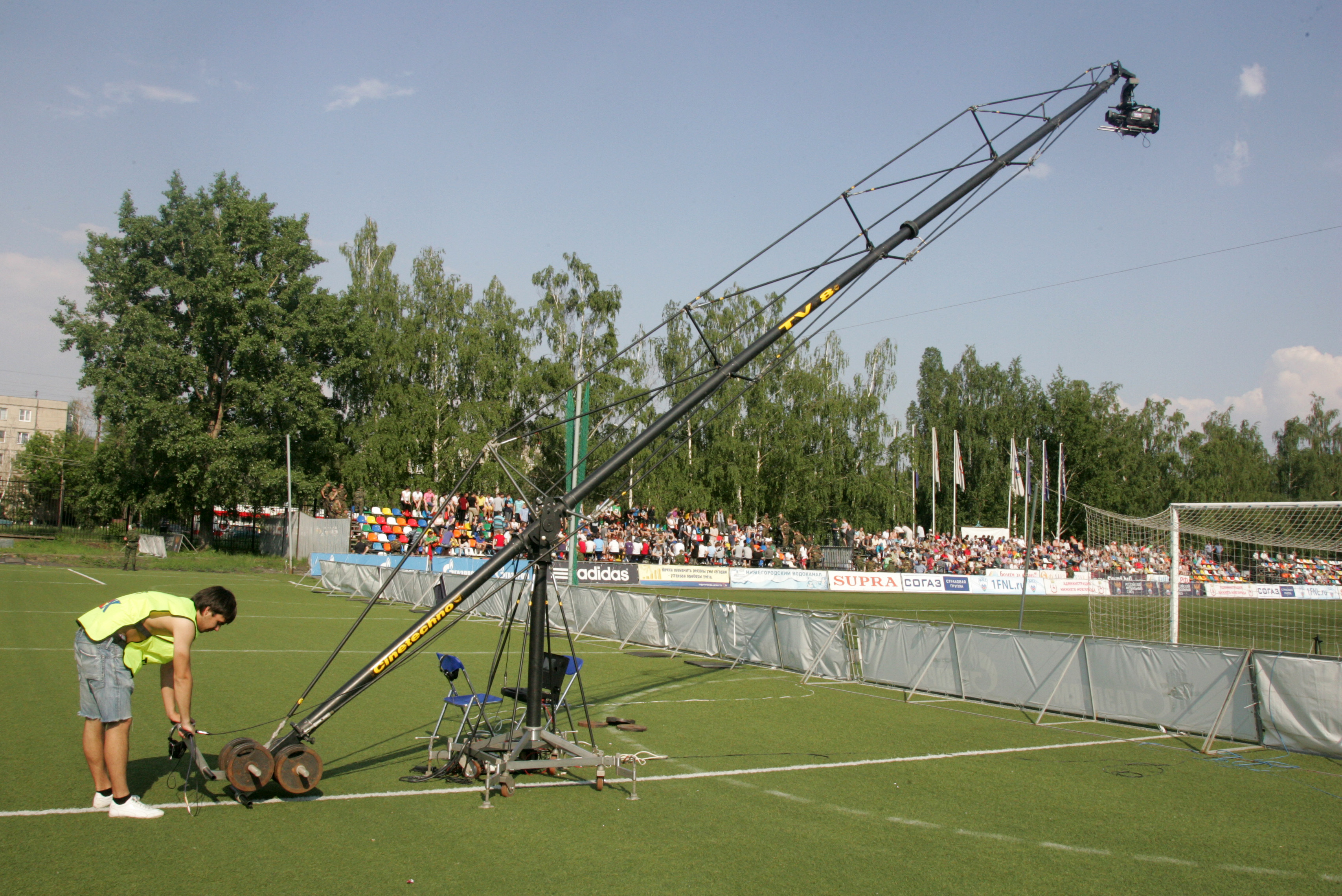 Camera crane-boom with remote control of pan & tilt head at football filming.